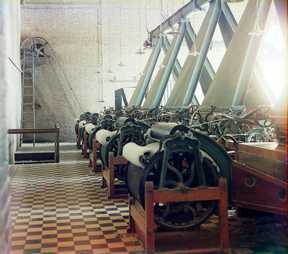 To Make Your Own Color Photo from the Original Glass Plate Negatives, use this file: Prokudin-Gorskiĭ, Sergeĭ Mikhaĭlovich, 1863-1944, photographer. [Cotton textile mill interior with machines producing cotton thread, probably in Tashkent] [between 1905 and 1915] 1 negative (3 frames) : glass, b&w, three-color separation ; 24 x 9 cm. Notes: Title devised by library staff. Forms part of: Sergei Mikhailovich Prokudin-Gorskii Collection (Library of Congress). Subjects: Cotton industry. Machinery. Mills. Interiors. Tile flooring. Asia, Central. Format: Glass negatives. Color separation negatives. For additional information on commercial use, see "Prokudin-Gorskii...," Repository: Library of Congress, Prints and Photographs Division, Washington, D.C. 20540 USA Higher resolution image is available (Persistent URL): Call Number: LC-P87- 111x